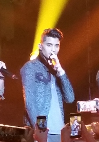 Erick Brian Colon (Cuba), member of CNCO boy band (First winners of Univision music reality show La Banda), debut solo concert Jan. 30, 2016, at the Fillmore Miami Beach, Jackie Gleason Theater.